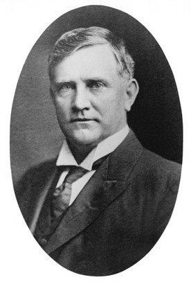 Photograph of George Leake (1856-1902), 3rd Premier of Western Australia.